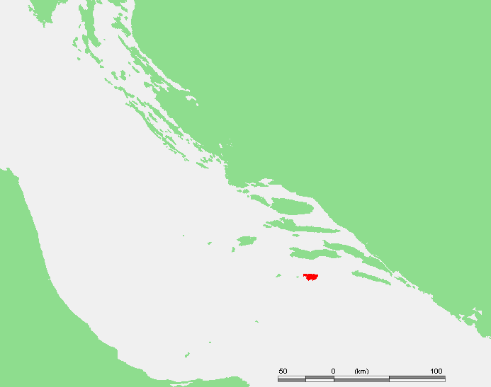 Island of Croatia - Croatia - Lastovo.PNG